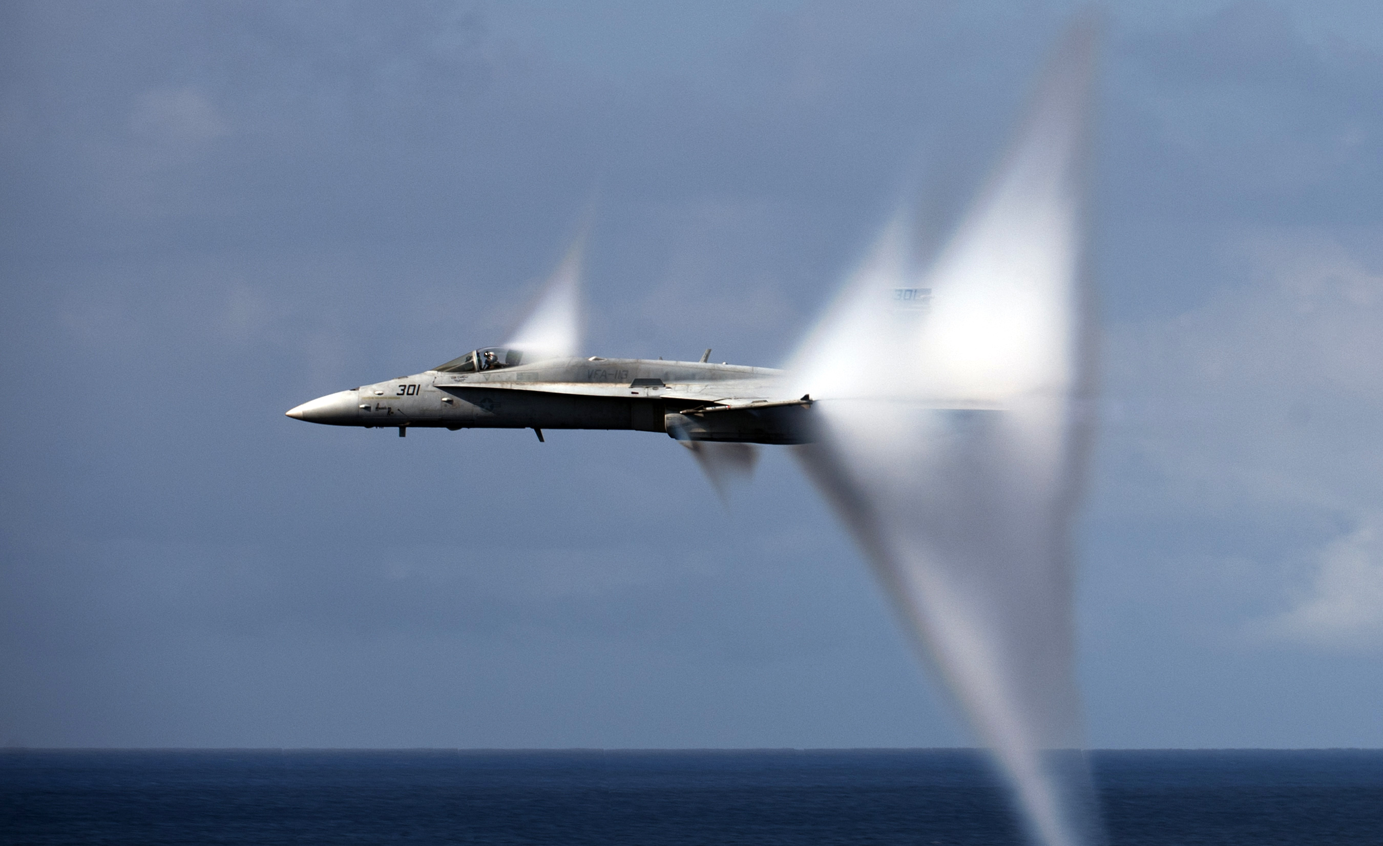 An F/A-18C Hornet assigned to Strike Fighter Squadron 113 breaks the sound barrier during an air power demonstration over the Nimitz-class aircraft carrier USS Carl Vinson. Carl Vinson and Carrier Air Wing 17 are currently underway in the U.S. 7th Fleet area of responsibility. Photo by Petty Officer 3rd Class Travis Mendoza Date Taken:06.06.2011 Location:USS CARL VINSON, USAFRICOM, AT SEA Related Photos